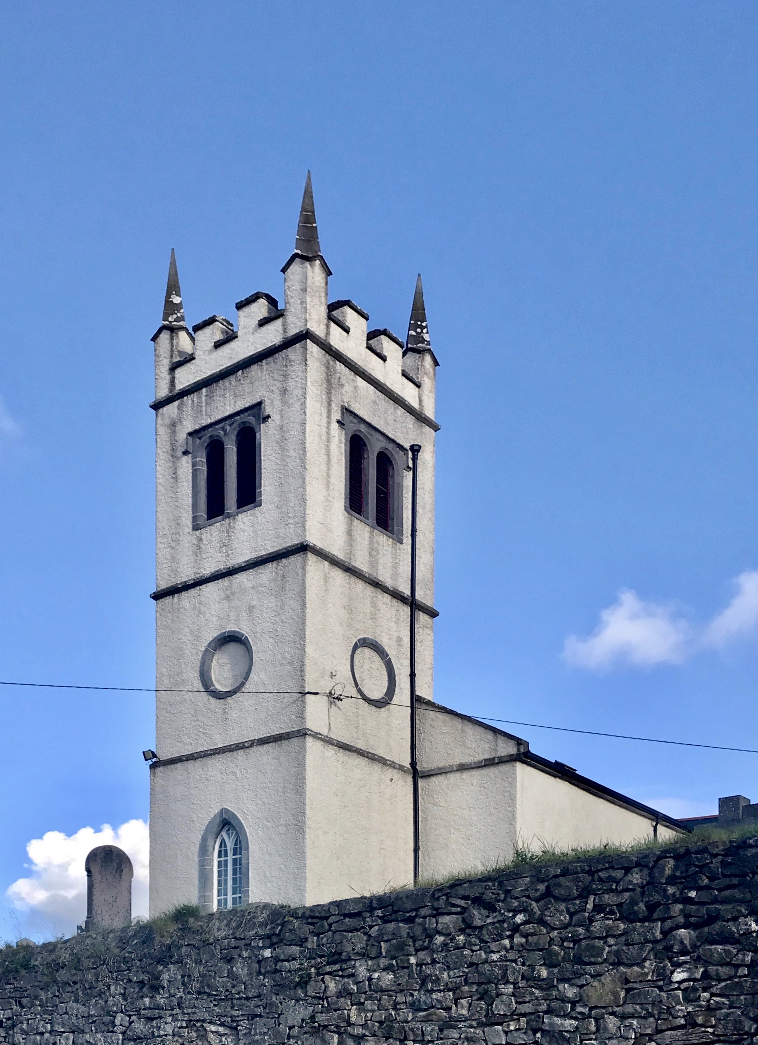 County Sligo, Skreen Church of Ireland. Wikidata has entry Q55051408 with data related to this item.